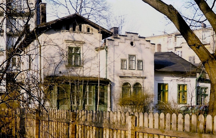 Kossak Manor in Krakow, Poland, residence of four generations of family of renown painters